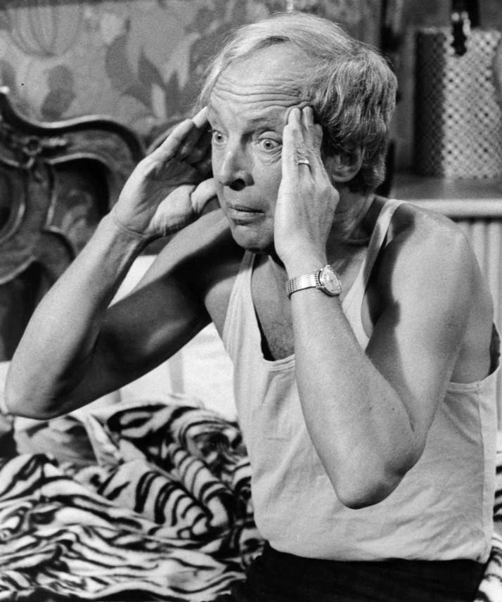 Photo of Conrad Bain as Arthur Harmon from the television program Maude.